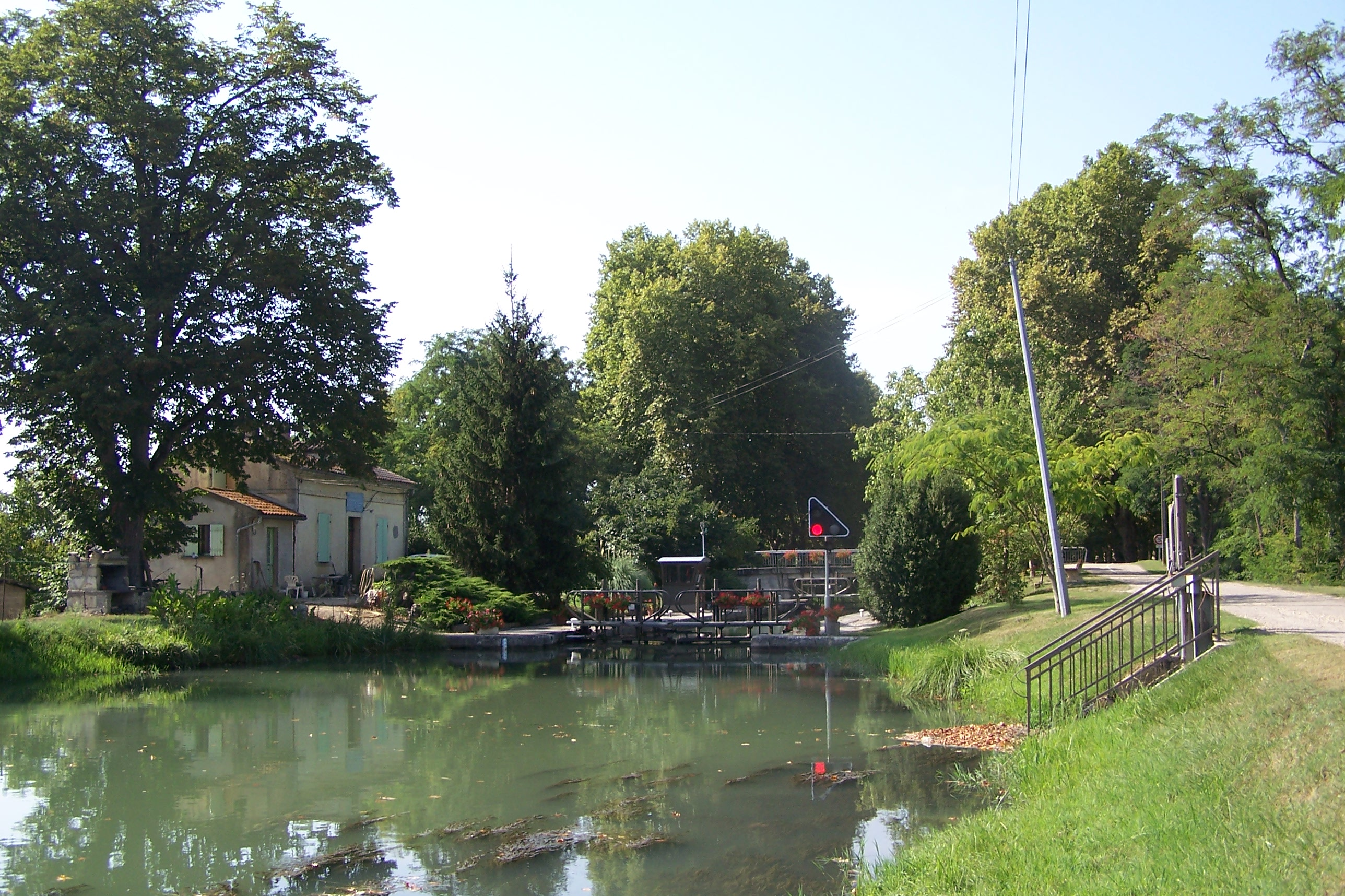 Lock # 43 in Villeton (Lot-et-Garonne, France)